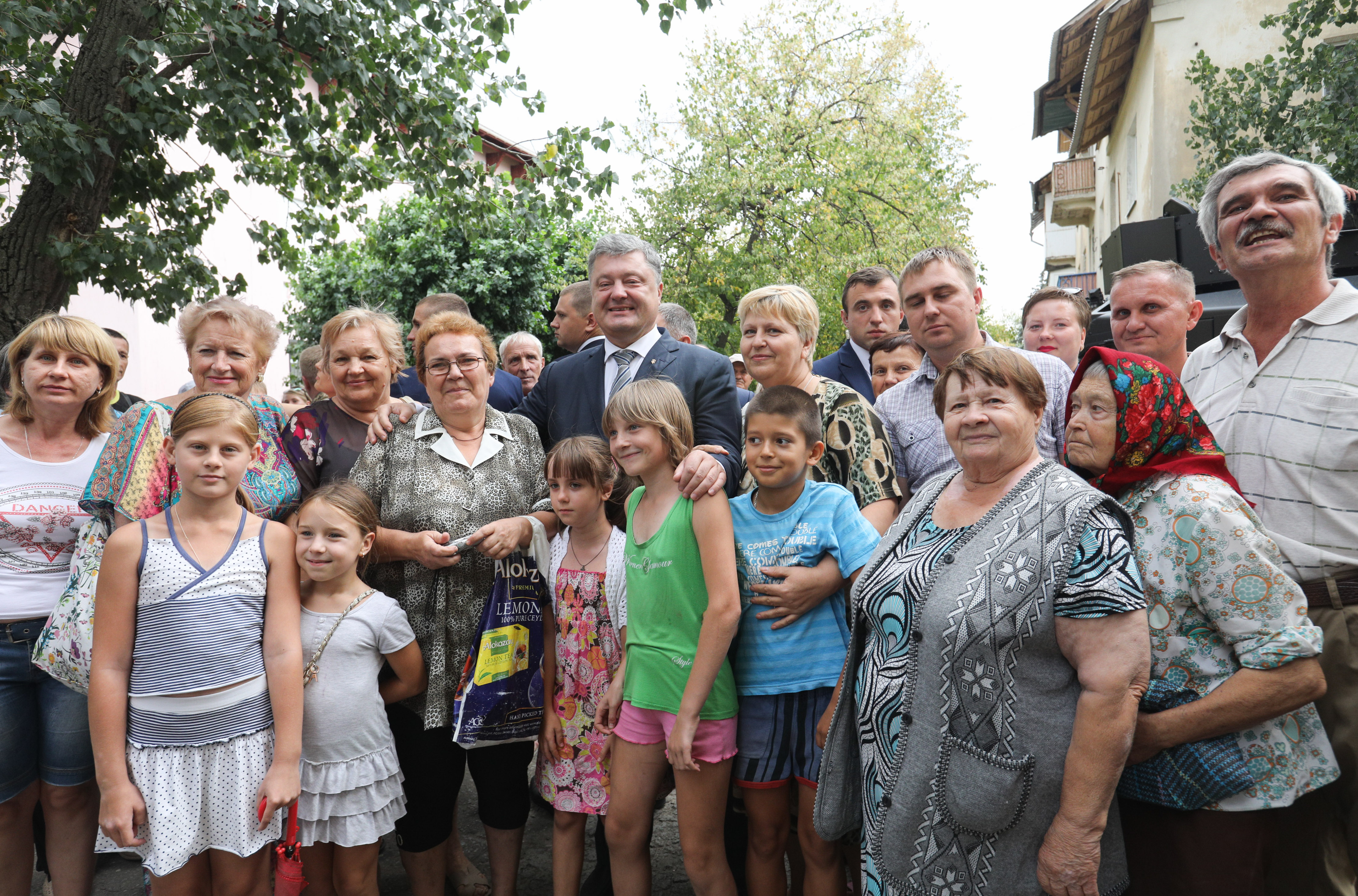 Petro Poroshenko in Luhansk Oblast during working trip to Kharkiv and Luhansk Obl. August 22nd, 2017